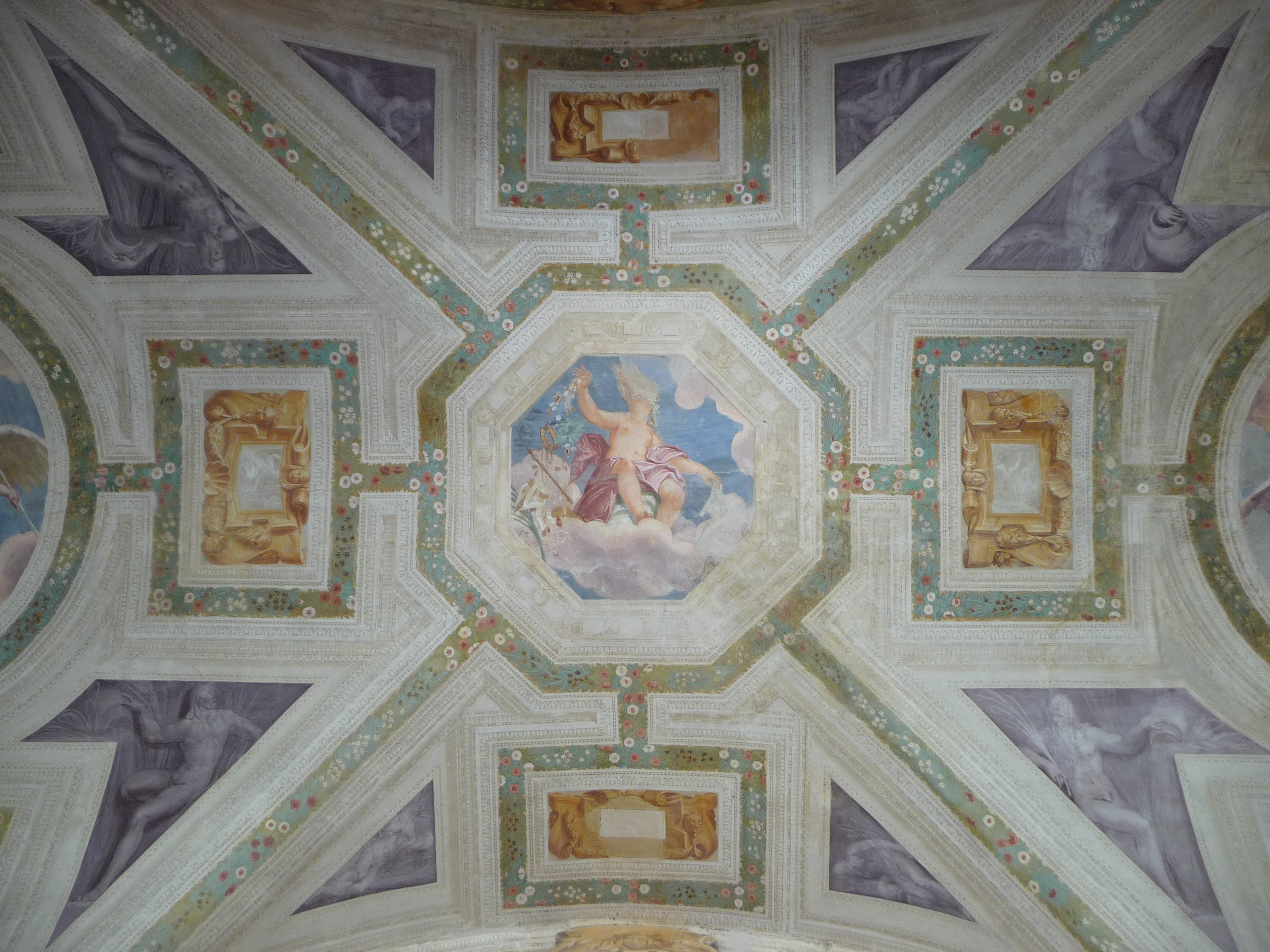 Frescoed ceiling of the loggia at the entrance, with allegory of Fortune, by Giovanni Battista Zelotti.